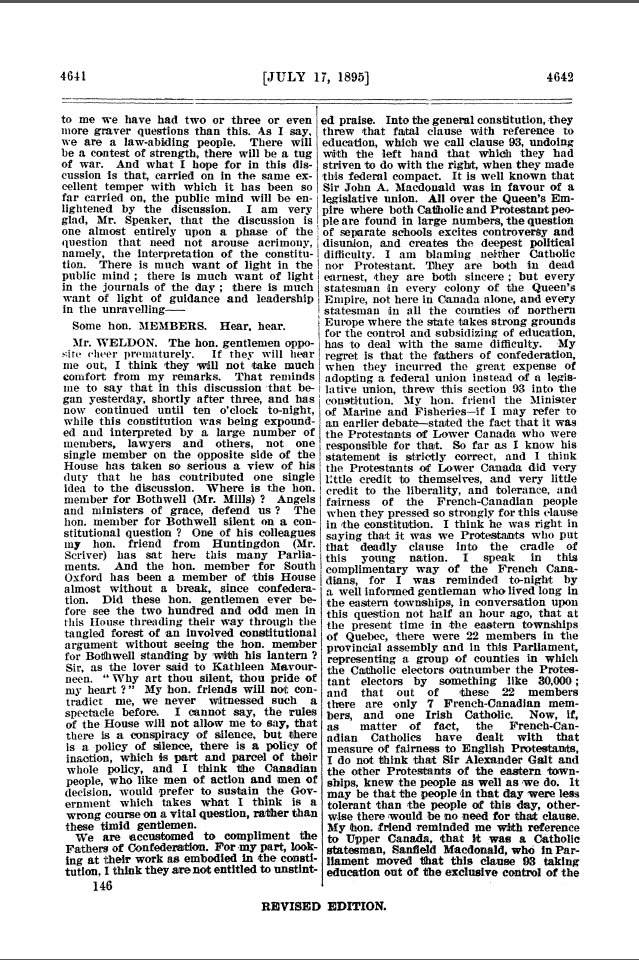 Sample page from Hansard, published in 1895 to avoid Crown Copyright infringement. This sample describes "Incidental discussion of the "opinion" jurisdiction of the United Kingdom's Judicial Committee of the Privy Council."